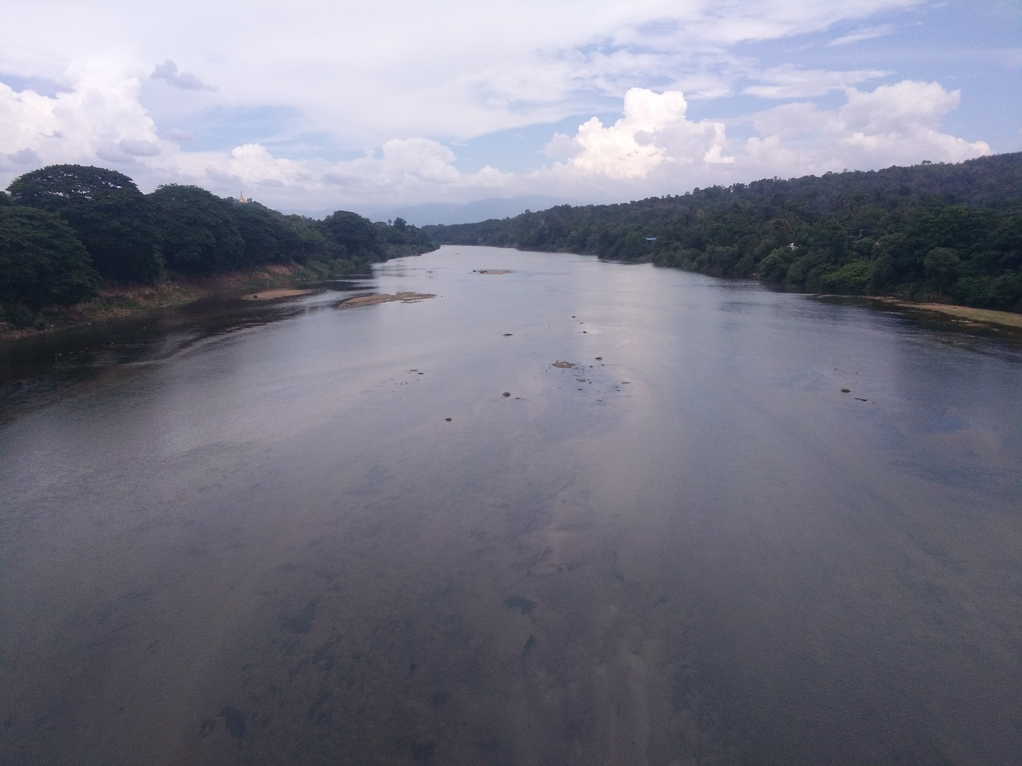 View of Haungthayaw River from Kyar-in Bridge, Kawkareik, Kayin State, Myanmar (Burma)